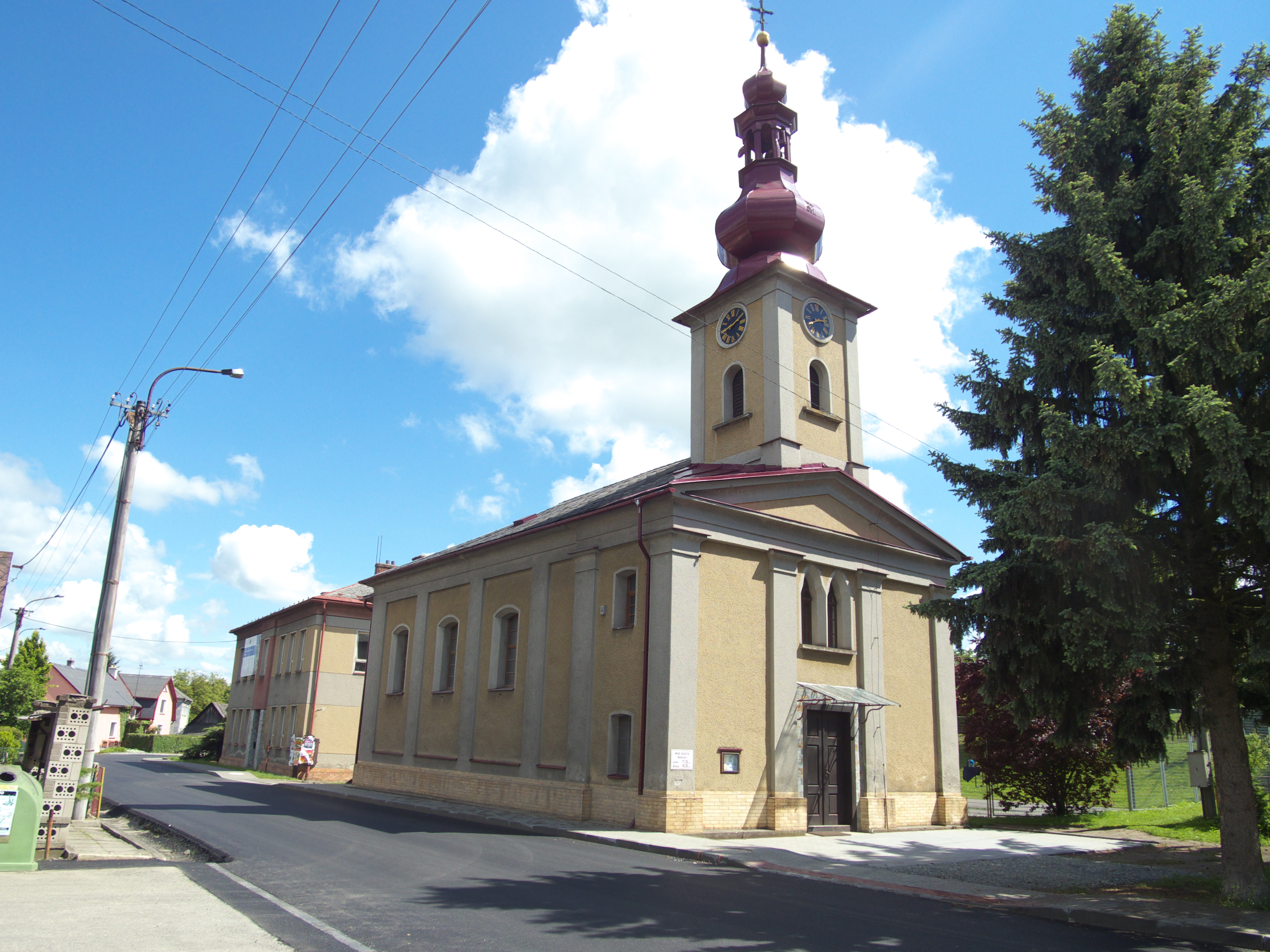 Rovensko (Spk)